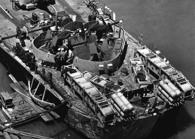 Fantail of the U.S. Navy destroyer USS Bush (DD-529) at the Mare Island Naval Shipyard, California (USA), on 16 June 1944.